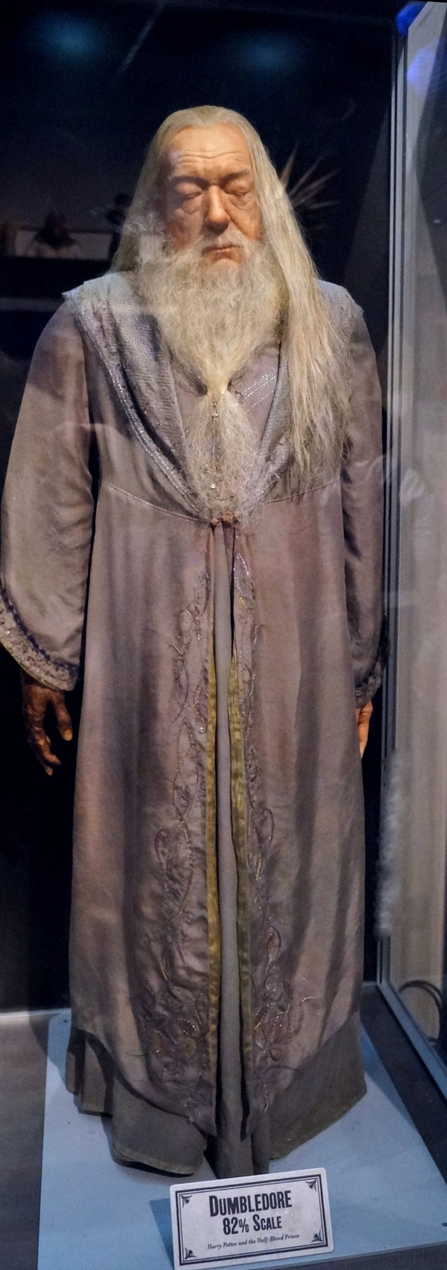 Wax figure of Albus Dumbledore, as he appeared at Harry Potter and the Half-Blood Prince film.